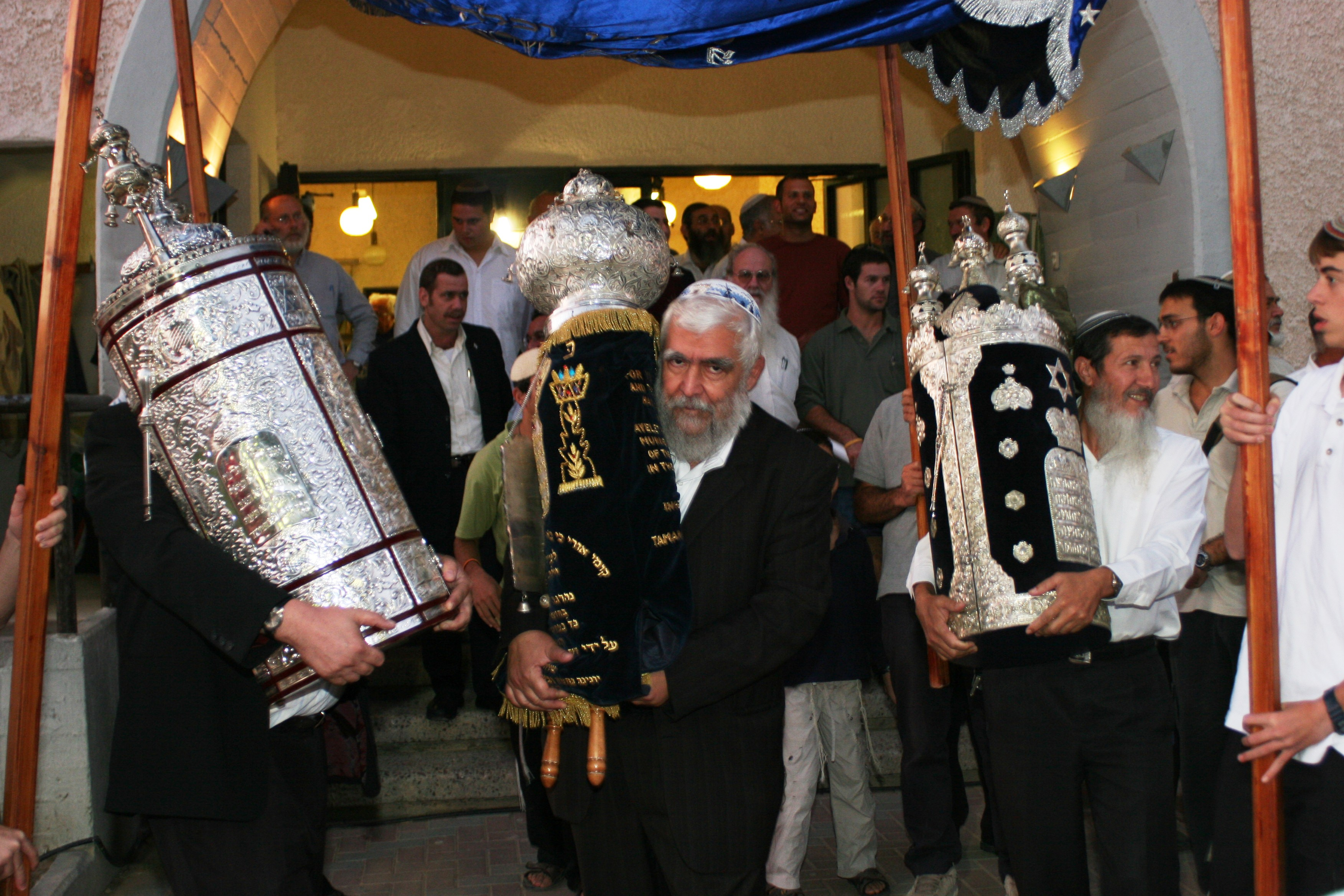 Transfer of Torah scrolls that were stored in the synagogue of Kfar Maimon until the dedication of the new synagogue of Aeerah HaShachar, named in memory of Ayelet HaShachar Levi, who was murdered in a terrorist attack in Jerusalem.